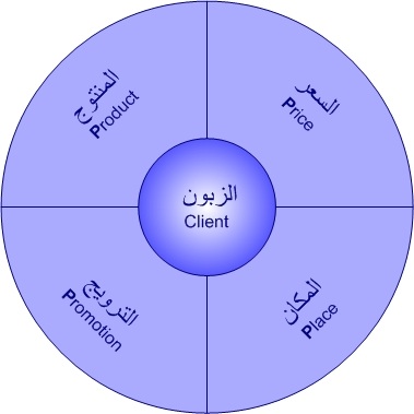 The 4 P's for a good Politiv of Marketing-Mix